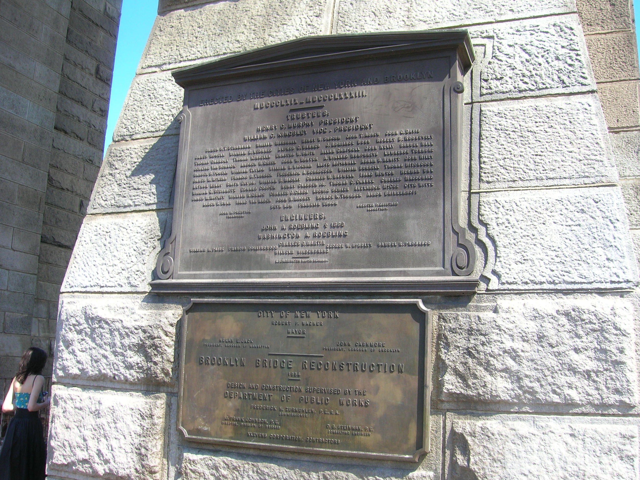 Tablet signs on west tower of Brooklyn Bridge, July 2009